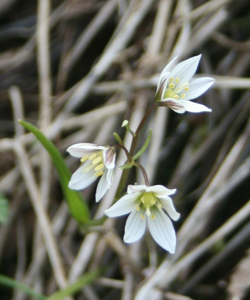 Lloydia triflora, in Mount Ibuki, Maibara, Shiga Prefecture, Japan.